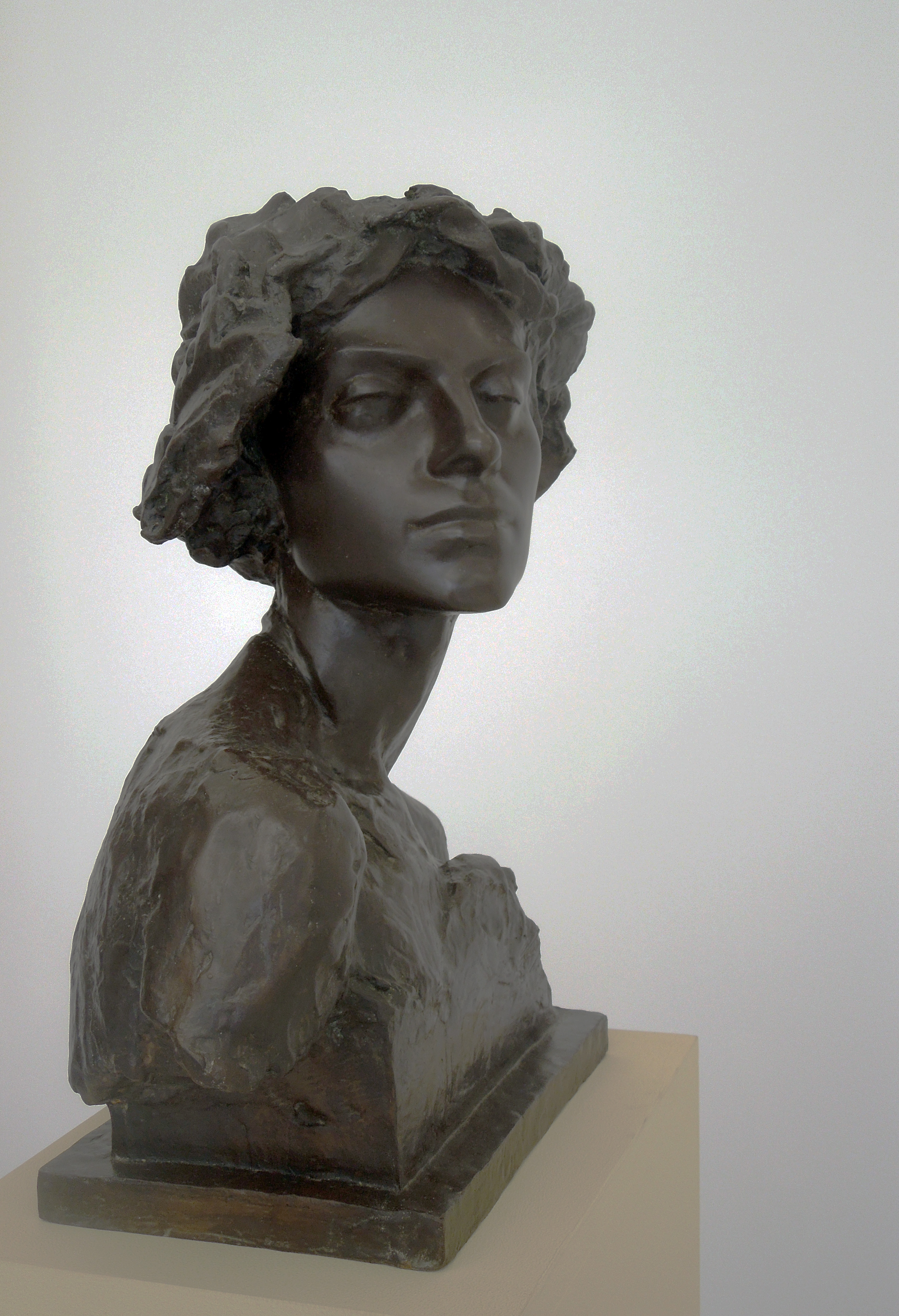 Stanislav Sucharda - Portrait of Vlasta Zindlová, 1911, bronze